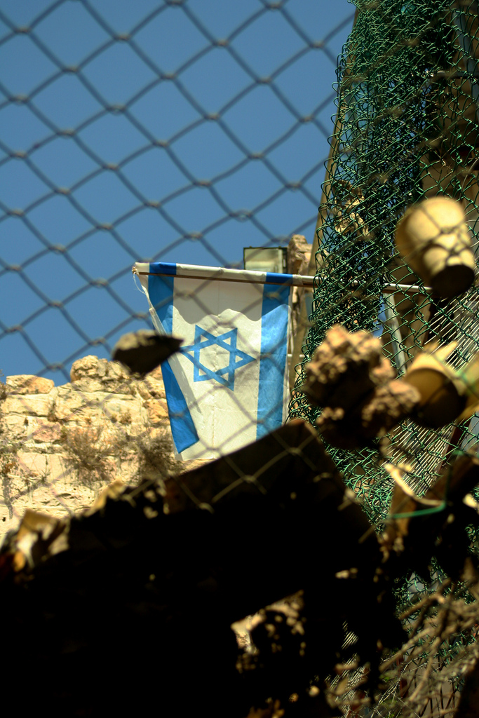 A view of the net used to collect trash thrown by Israeli Settlers towards the Palestinian part of the Old City of Hebron in the West Bank.